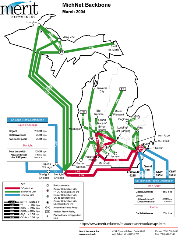 Backbone map for MichNet, the state-wide TCP/IP network in Michigan operated by the Merit Network, Inc.